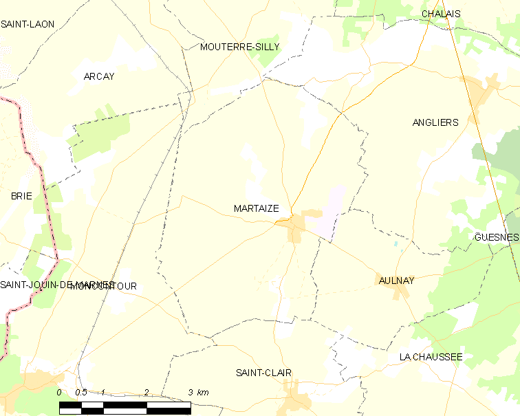 Map of French municipality Martaizé